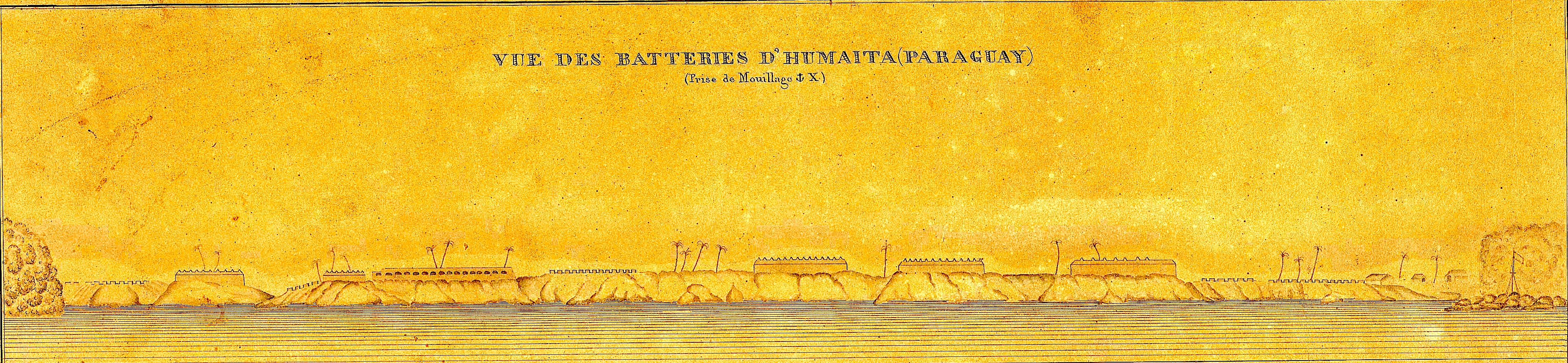 An elevation of the Fortress of Humaitá sketched from a French naval vessel c.1857, probably by the future Admiral Amédée Mouchez.